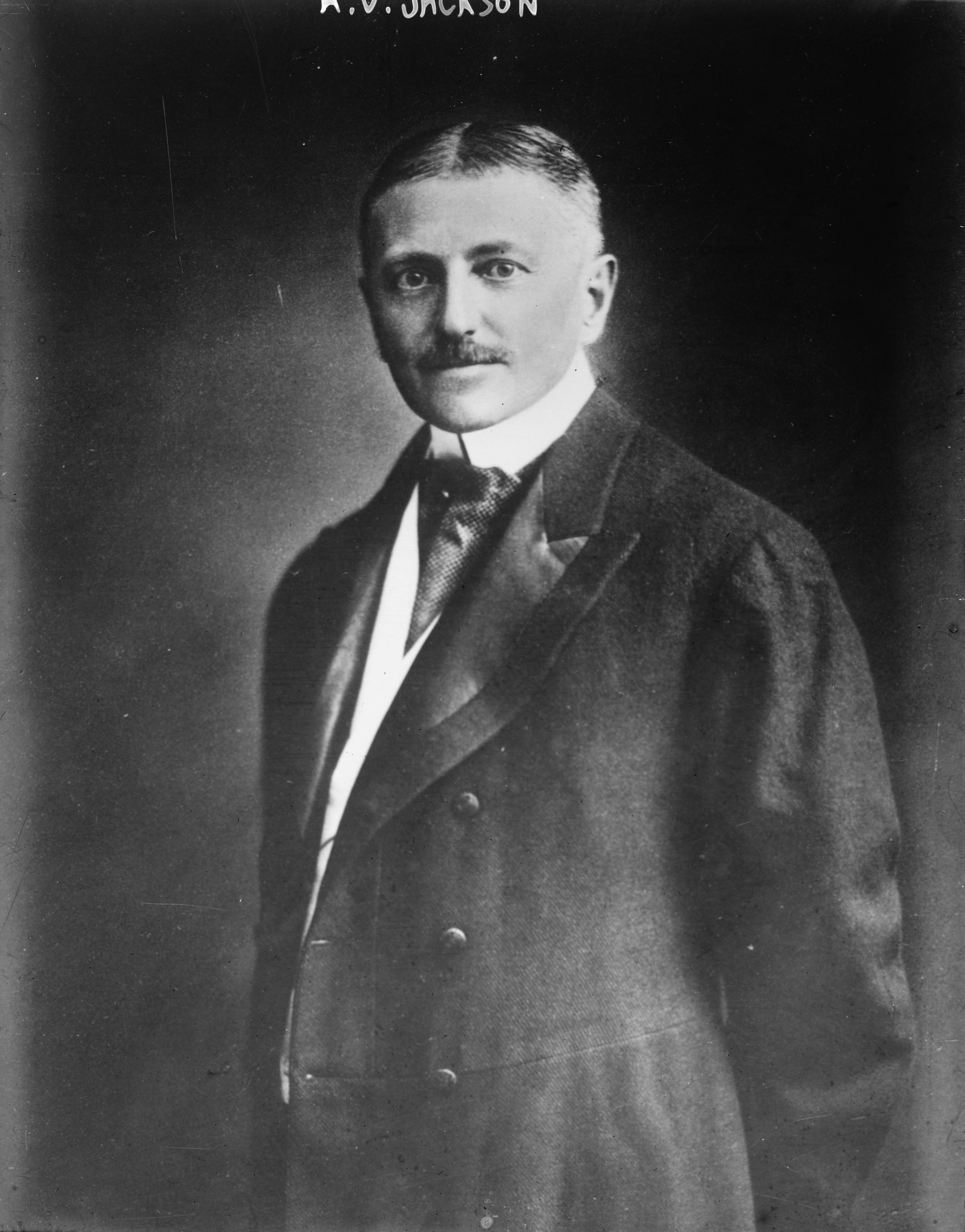 A.V. Jackson